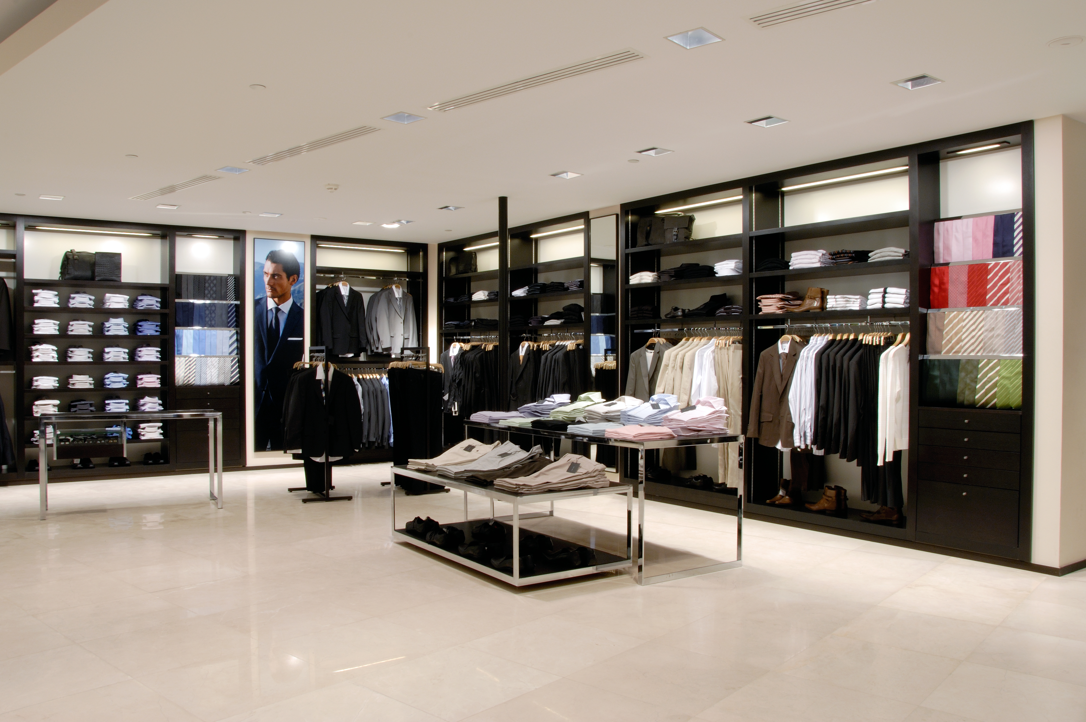 Typical Zara store interior. Almere, The Netherlands. John Sotomayor was the Menswear manager when this store originally opened in 2007. Photographs of the Almere store were posted by John Sotomayor in 2008.